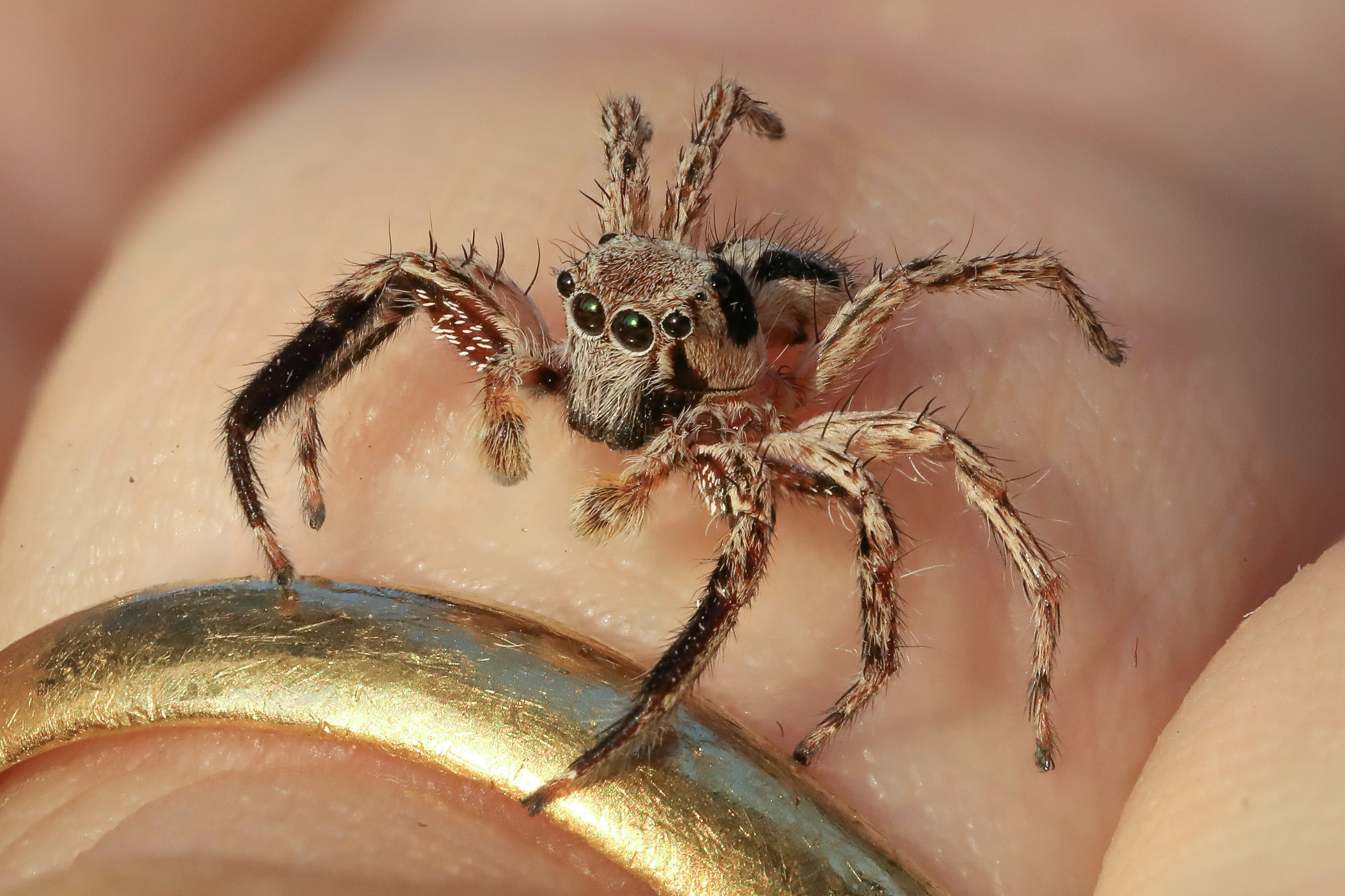 Plexippus petersi (jumping spider), male, on a human finger, at golden hour in Don Det, Si Phan Don, Laos. Appromimately 7 mm (0.28 in) diameter legs included. Focus stacking from 9 pictures, handheld camera with macro lens.